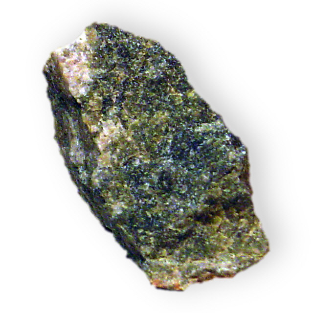 These mineral images are free to use how you wish.